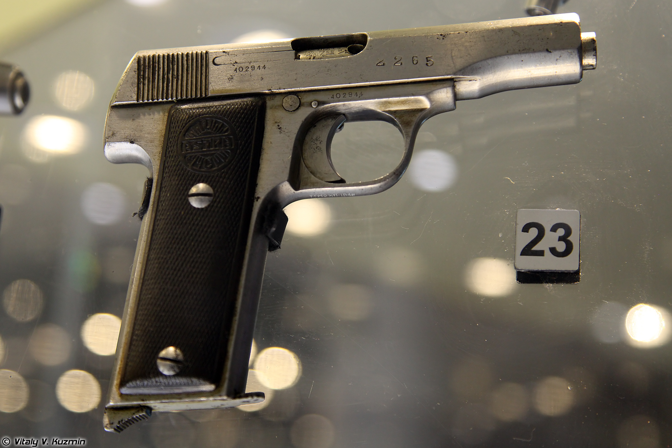 Astra 700 Special